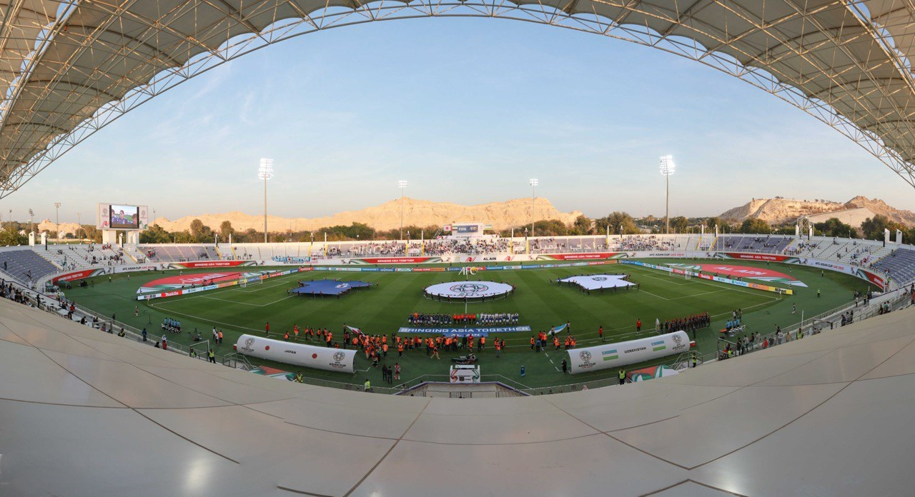 Khalifa bin Zayed Stadium